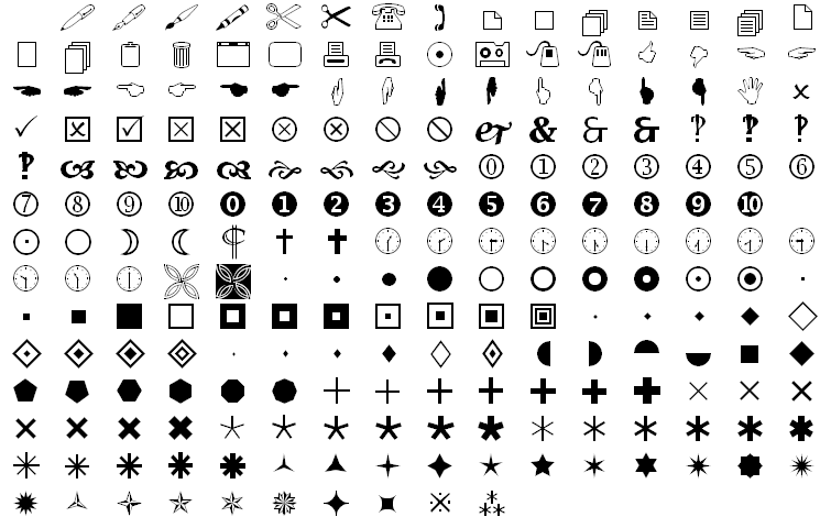 Wingdings 2 character mosaic. Picture made by User:Monedula